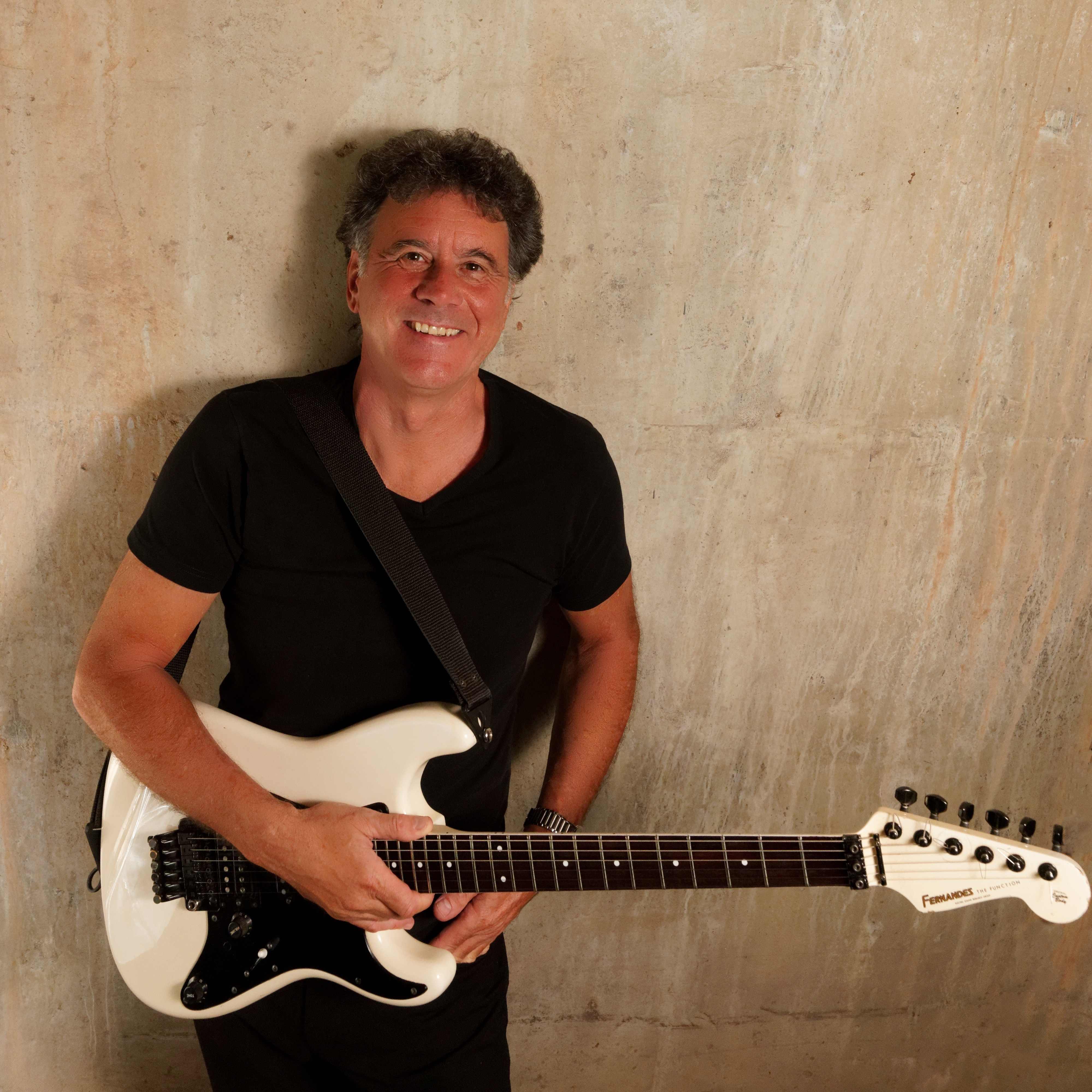 Steve Lauri, singer, songwriter and guitarist.